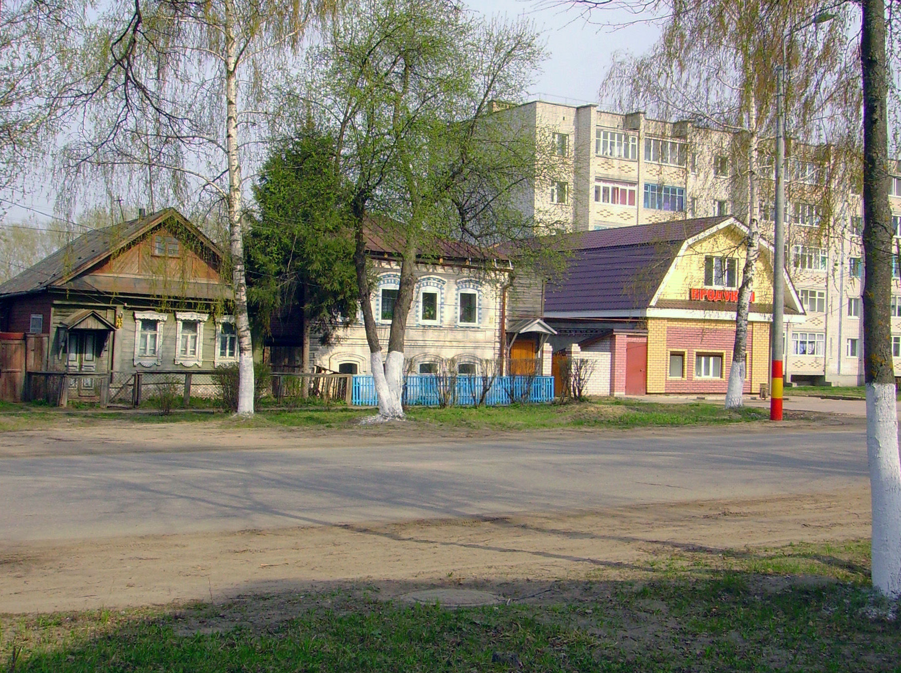 Ending of Lenin Street